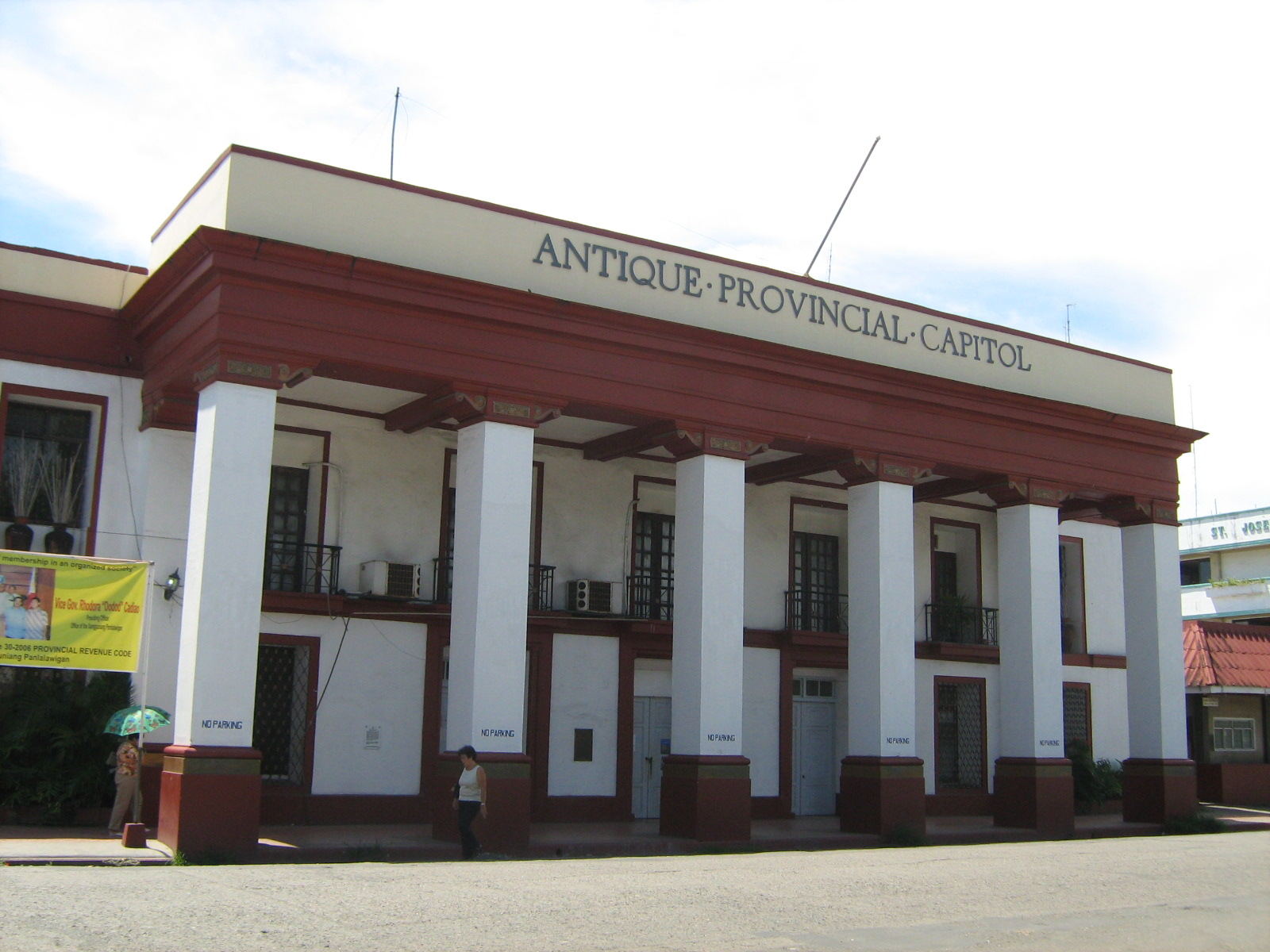 The Antique provincial capitol in the municipality of San Jose, Antique, in the Philippines.